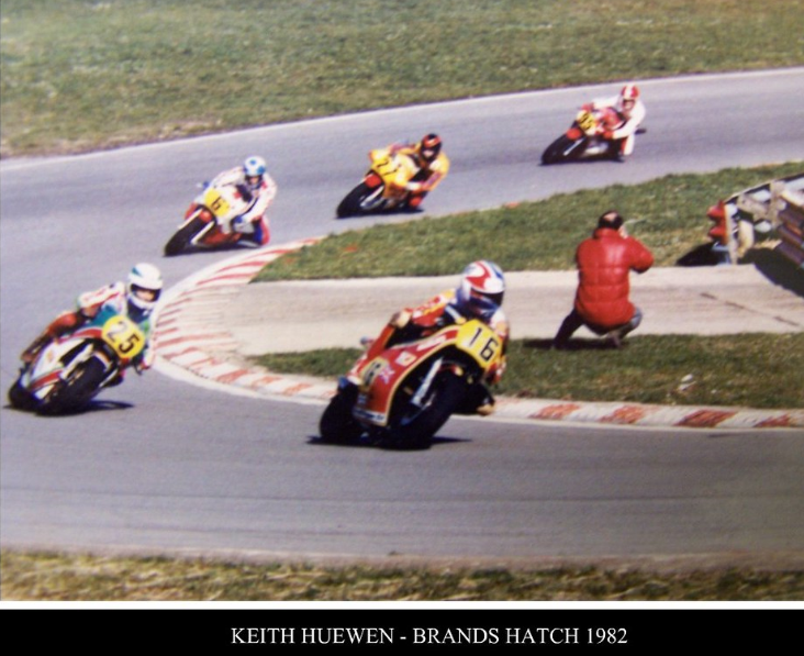 Brands Hatch 1982 - Barry Woodland (25) & Keith Huwen (16) & Steve Parrish (6)